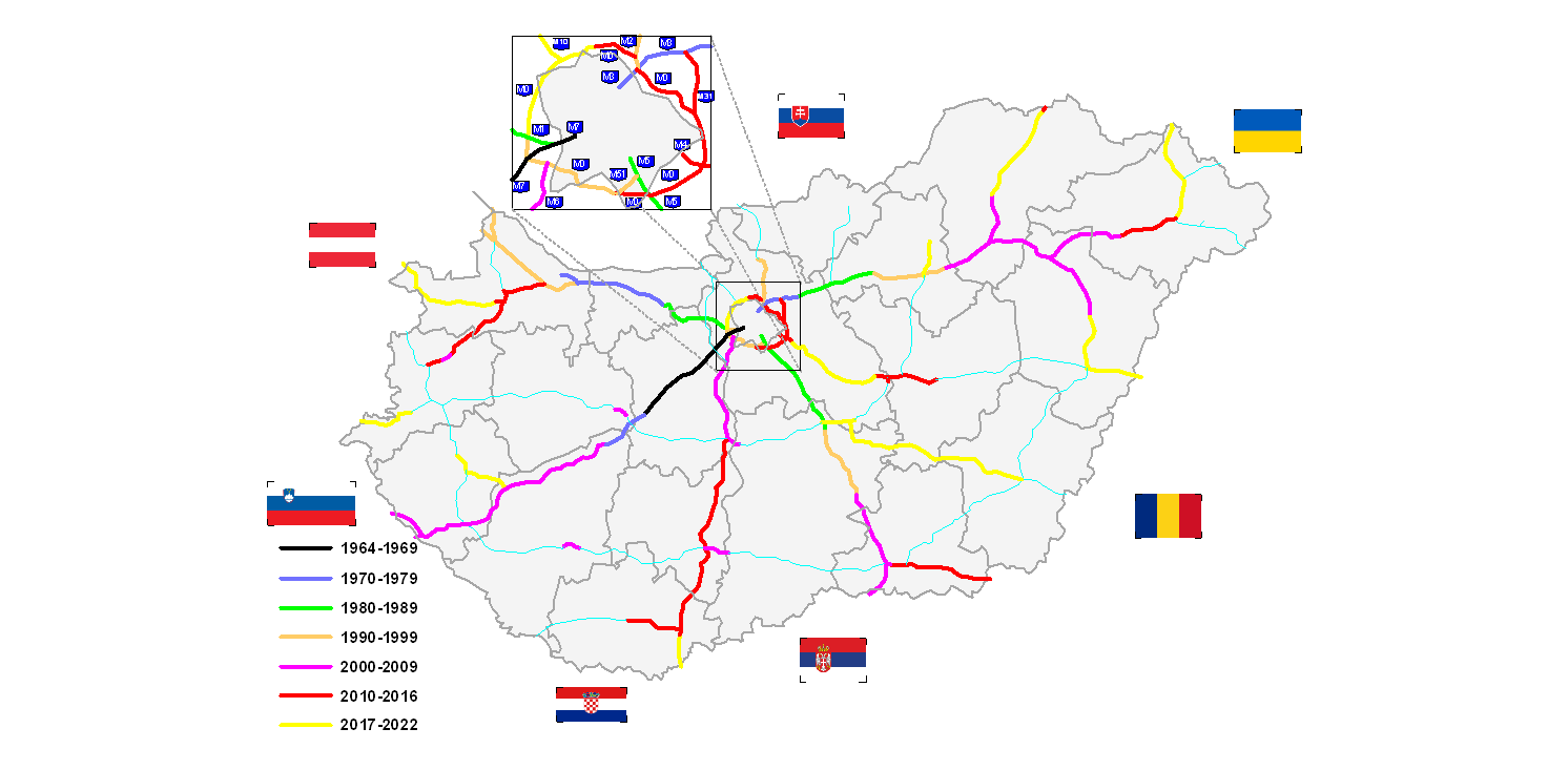 Hungary existing and planned routes Expressway 2016-2022 period